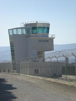 Control Tower of Comiso Airport